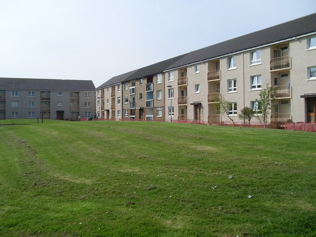 Glenraith Square Residential street in Craigend, Glasgow.